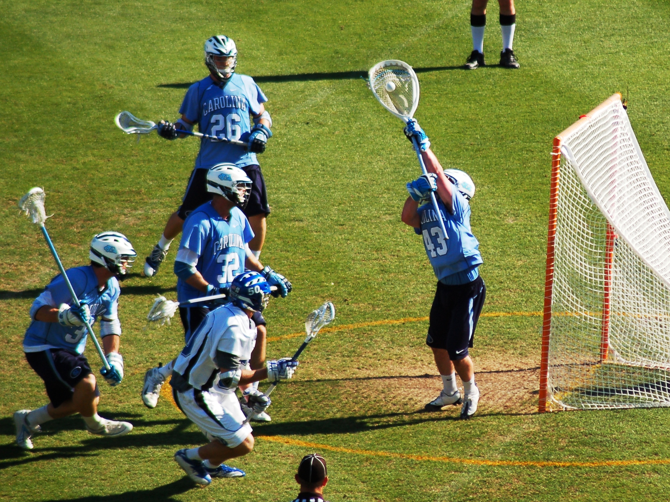 UNC Tar Heels men's lacrosse goalie making a save